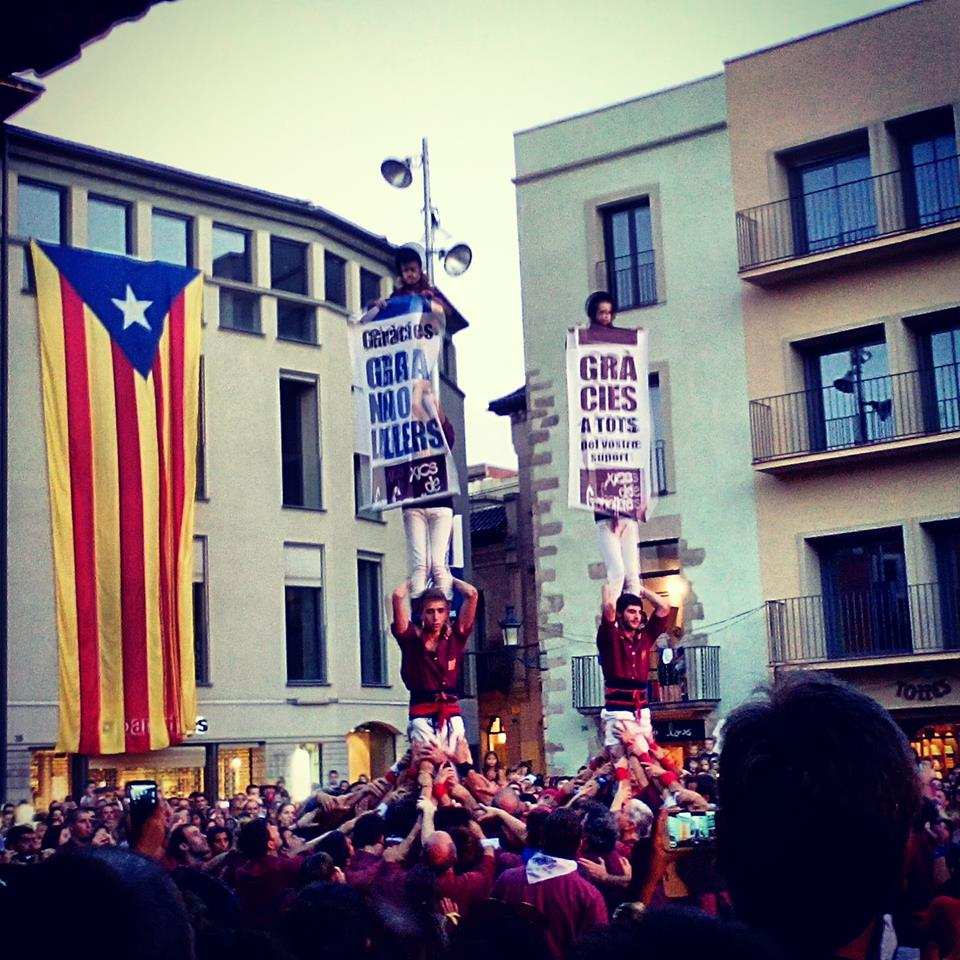 Festa major 2015